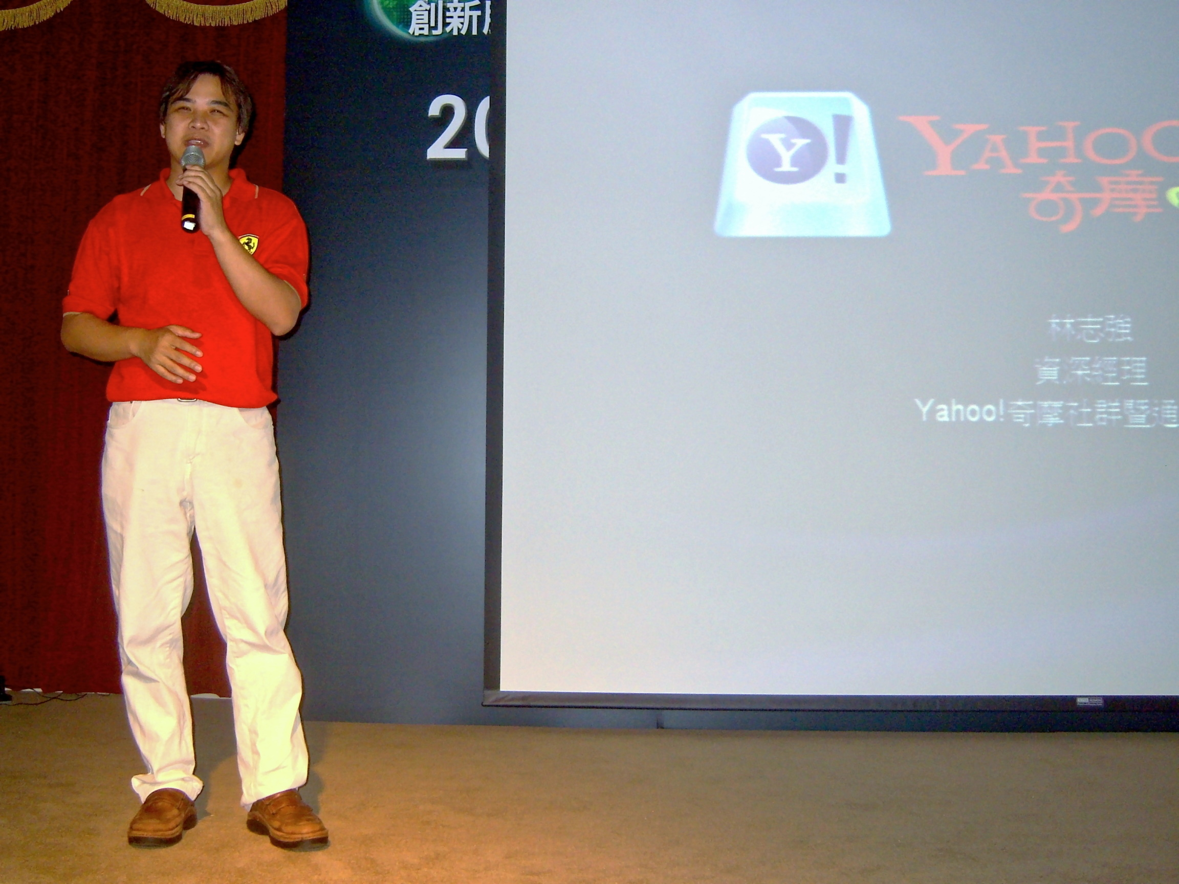 2008 III IDEAS Show: Demonstration - Yahoo! Kimo.